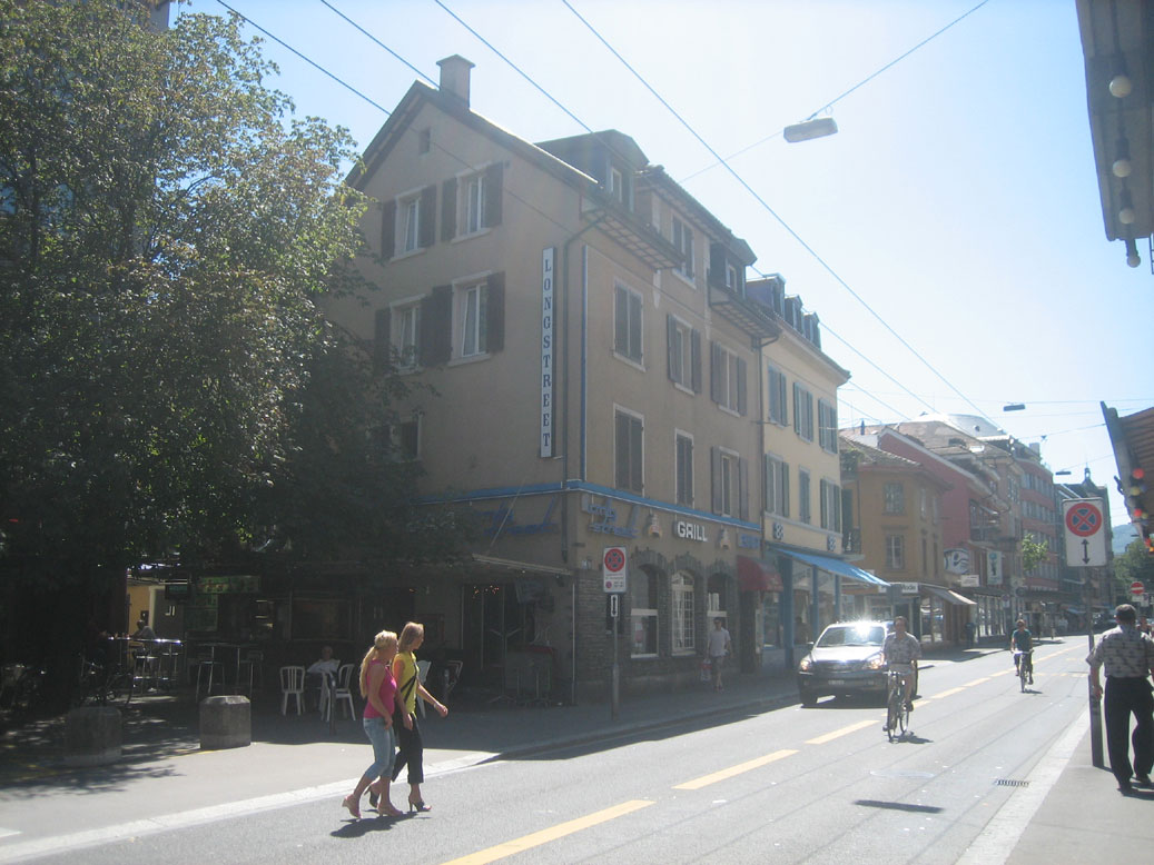 Langstrasse with the Longstreet Bar